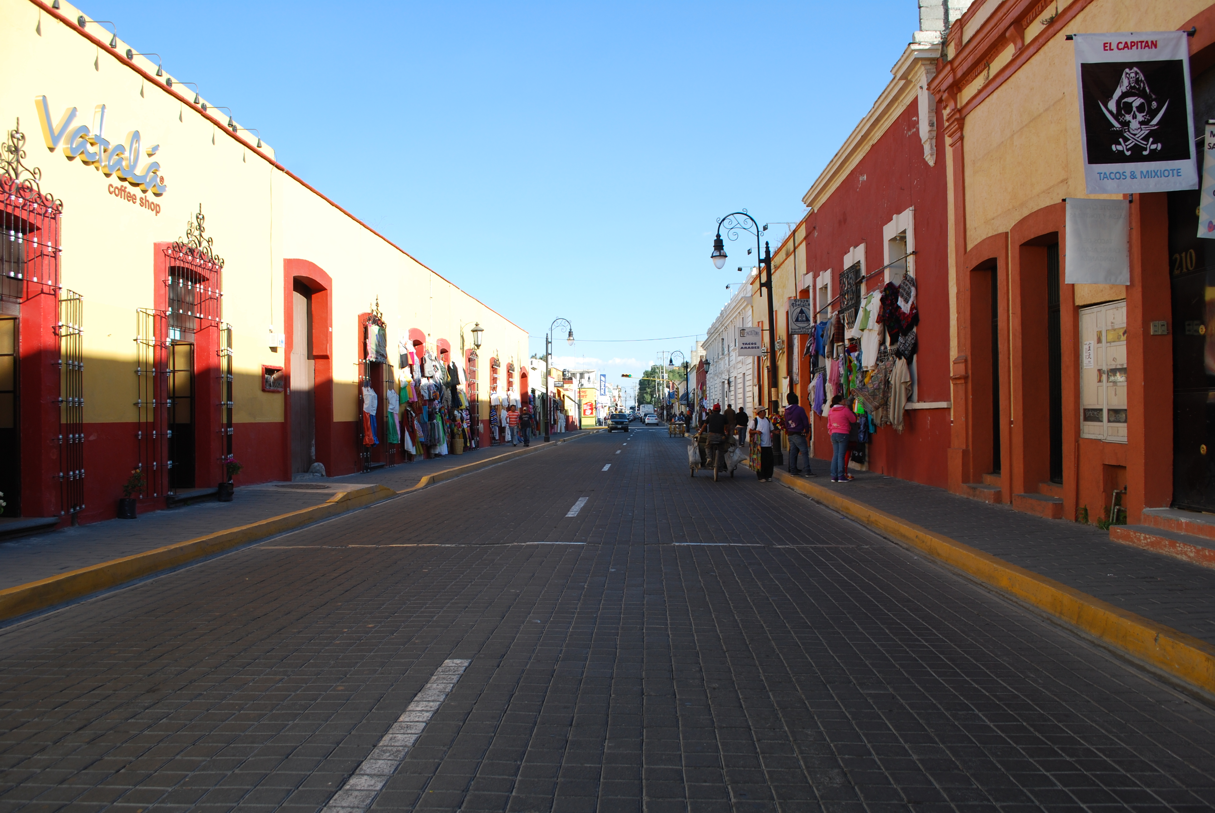 Looking west on Morelos Street in Cholula, Puebla, Mexico